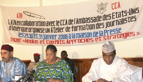 US Ambassasdor to Niger Bernadette M. Allen (center) with Nigerien Ministers of Communication Mohamed Ben Omar (left) and Culture Oumarou Hadary (right). Embassy sponsors training for Journalists on Media and Conflict From January 29-31, 2008, the U.S. Embassy, in collaboration with the Association of Nigerien journalists (AJN), organized a 3-day training conference on: “Media and Conflict: Approaches and Strategies in News Processing” in Niamey. About 75 journalists from state-run and private media from throughout Niger participated in the conference workshops. U.S. Ambassador Bernadette M. Allen and Nigerien Minister of Communication Mohamed Ben Omar both addressed the group during the opening ceremony.